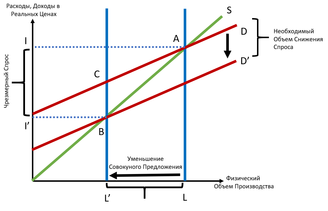 This image illustrates how hyperinflation occurs as a result of a sharp drop in aggregate supply.